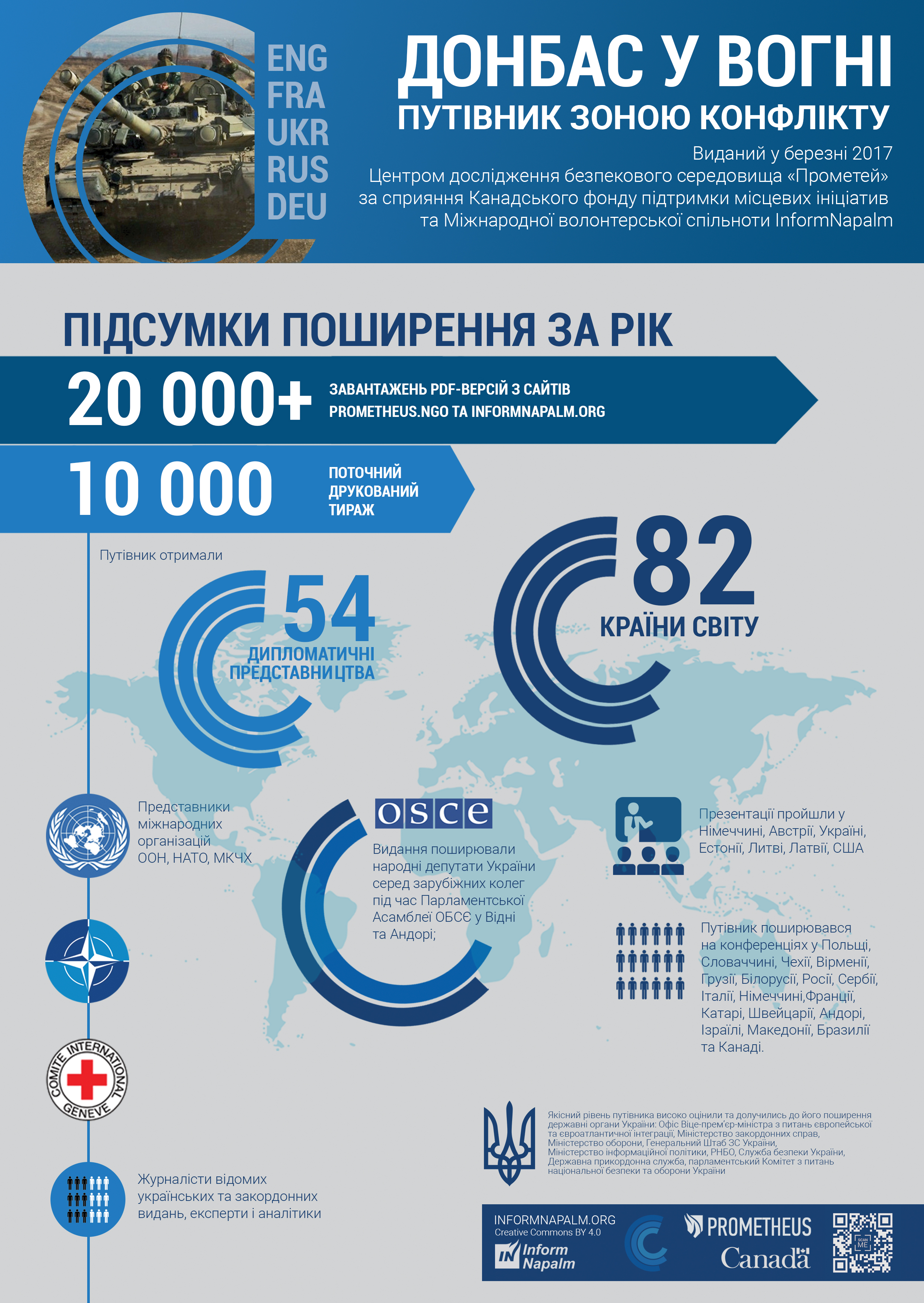 Infographic: The book "Donbas in Flames". Distribution over the year